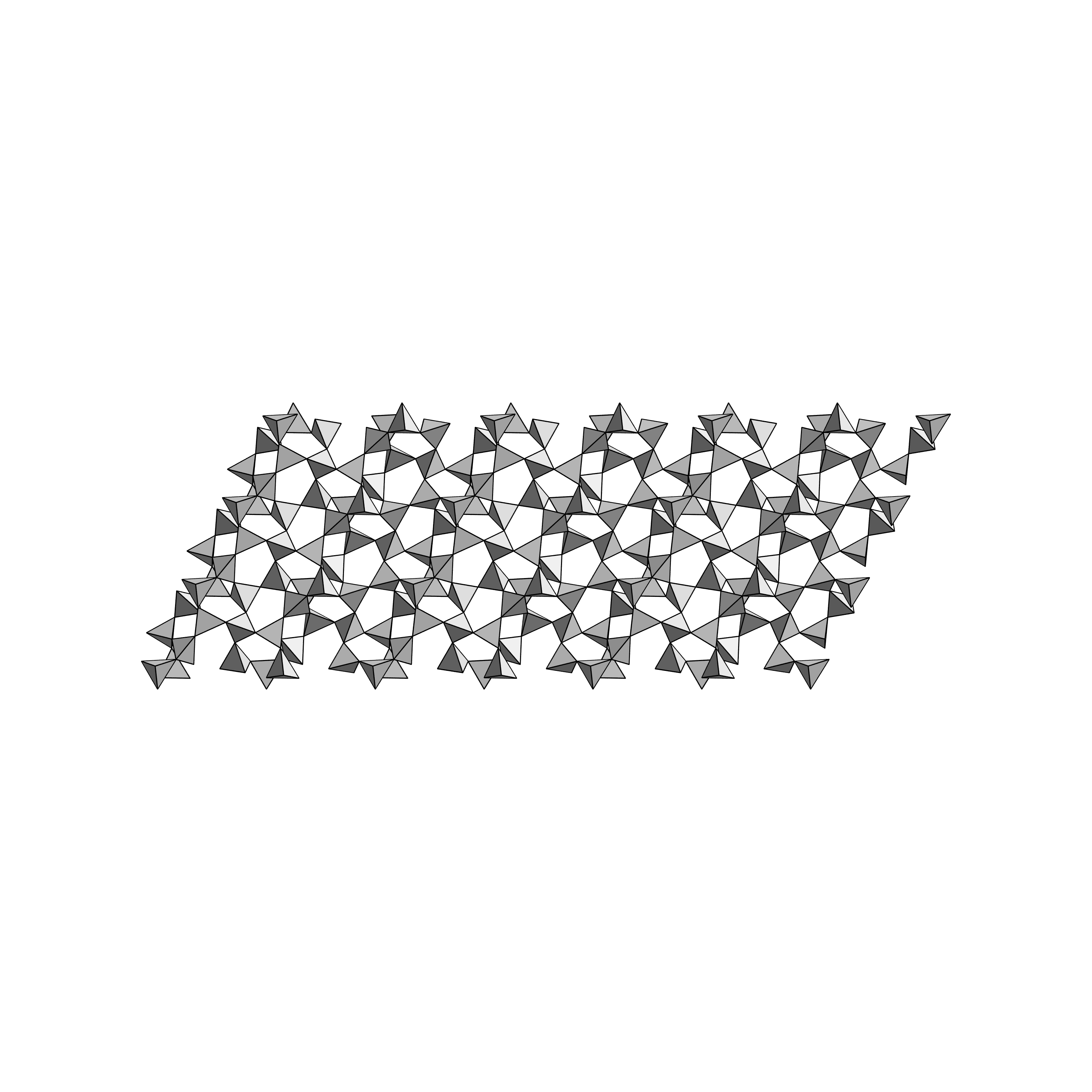 Heulandite silicate framework, view along b-axis Data from: Merkle A B., Slaughter M. (1968): Determination and refinement of the structure of heulandite, American Mineralogist 53, pp. 1120-1138 Calculation of image data: Larry W. Finger, Martin Kroeker, and Brian H. Toby, DRAWxtl, an open-source computer program to produce crystal-structure drawings, J. Applied Crystallography V40, pp. 188-192, 2007 Rendering: POVRAY